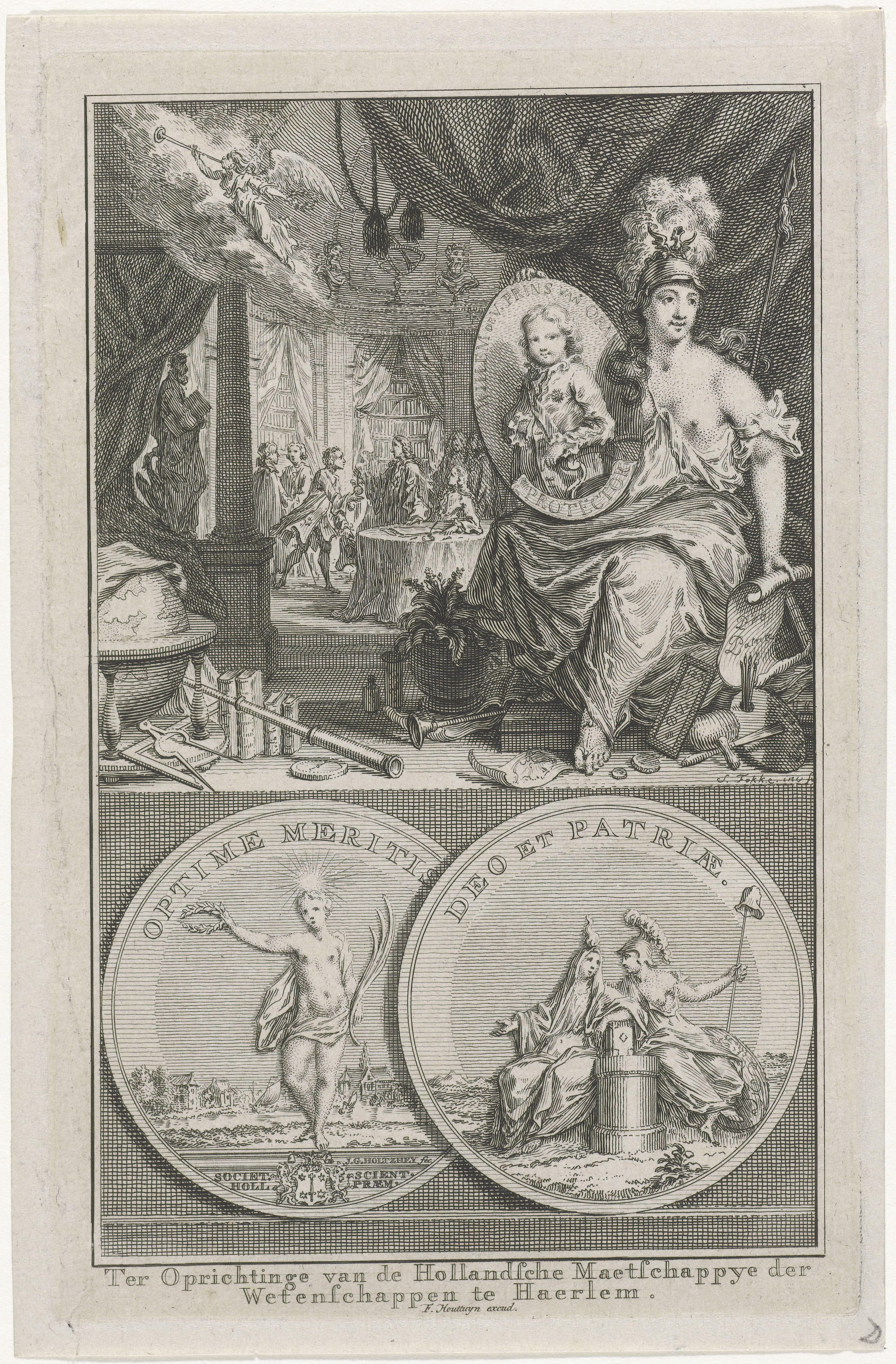 Commemorative print to celebrate the founding of the Dutch Society of Science, featuring their prize medal.